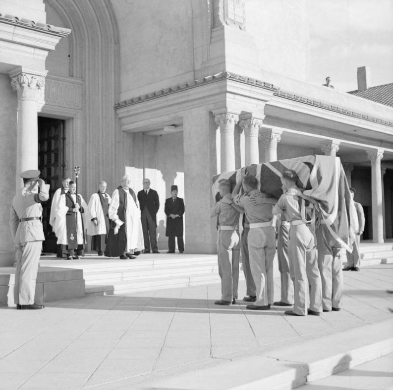 Funeral Service For Lord Moyne and Lance Corporal a H Fuller in Cairo, Egypt, November 1944 Bishop Gwynne and other clergy receive the coffins of Lord Moyne (Walter Edward Guinness), British Resident Minister in the Middle East, and his driver, Lance Corporal A H Fuller, at the doors of All Saints Cathedral, Cairo, Egypt in November 1944.